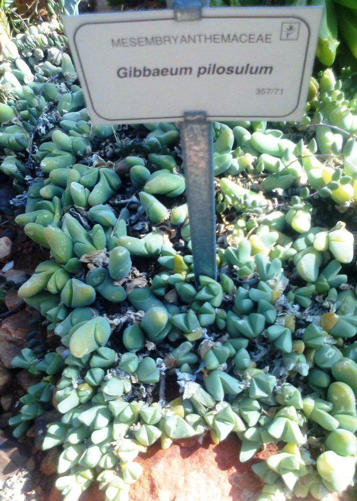 Gibbaeum pilosulum plant.